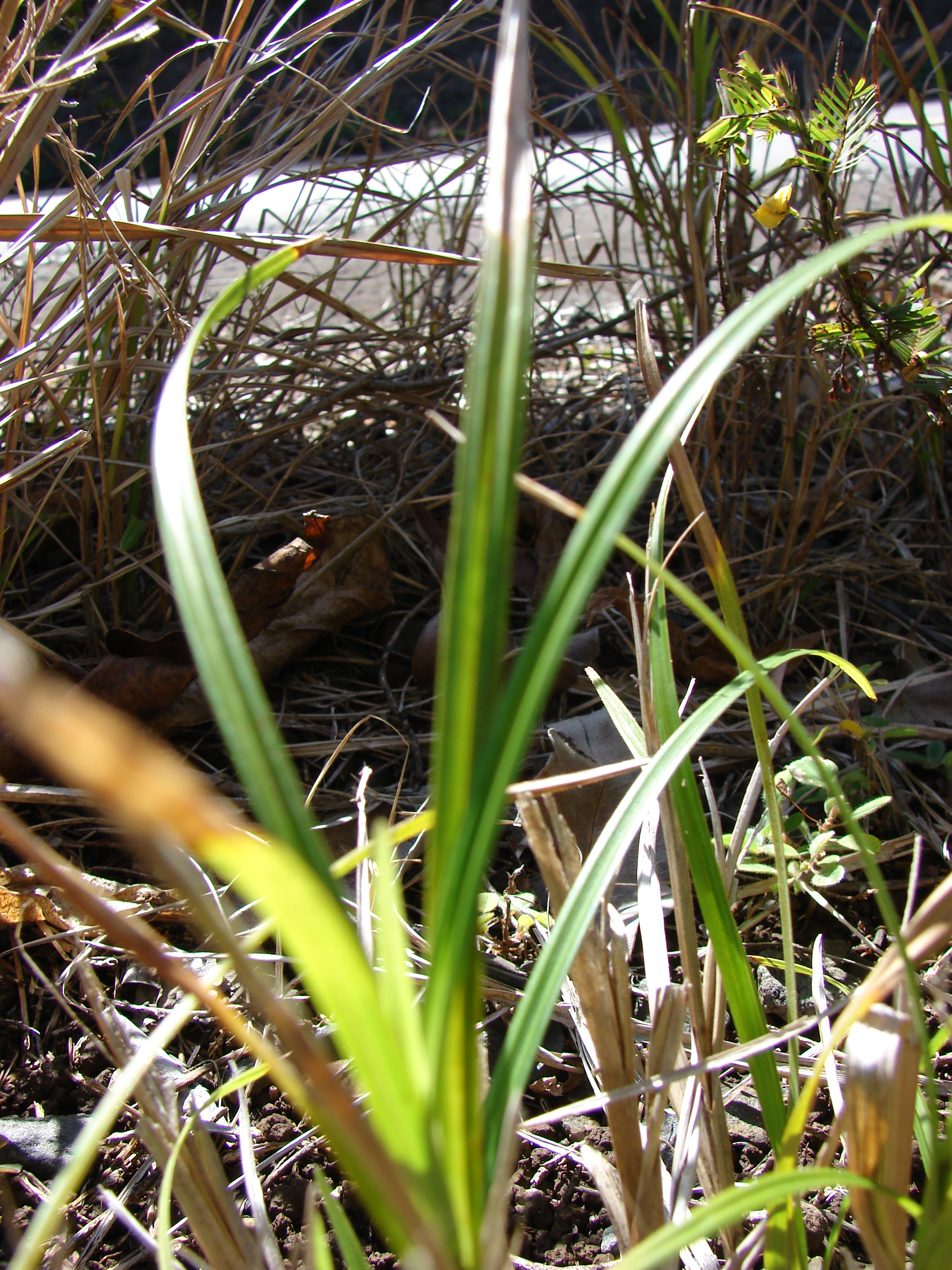 Scleria testacea (habit). Location: Maui, Hana Hwy